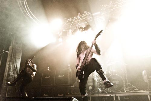 Immortal, Live at Hole In The Sky, Bergem Metal Fest 2007